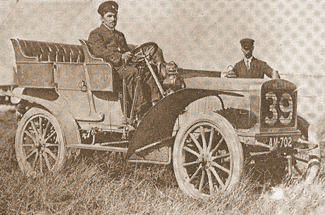 1905 Scout 14 hp